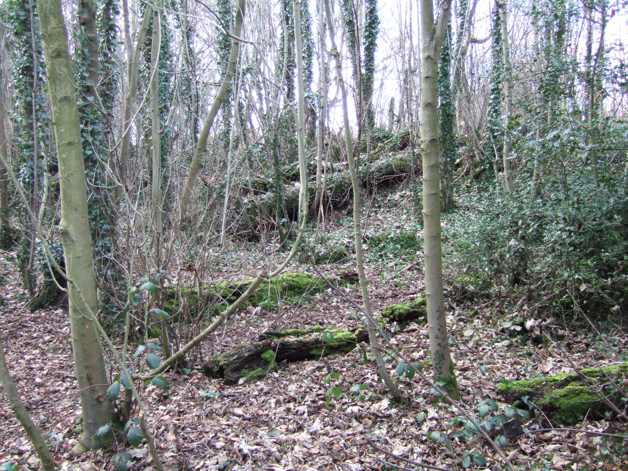 Coarse woody debris, dead trees lying where they fell in Oaks Park, Surrey